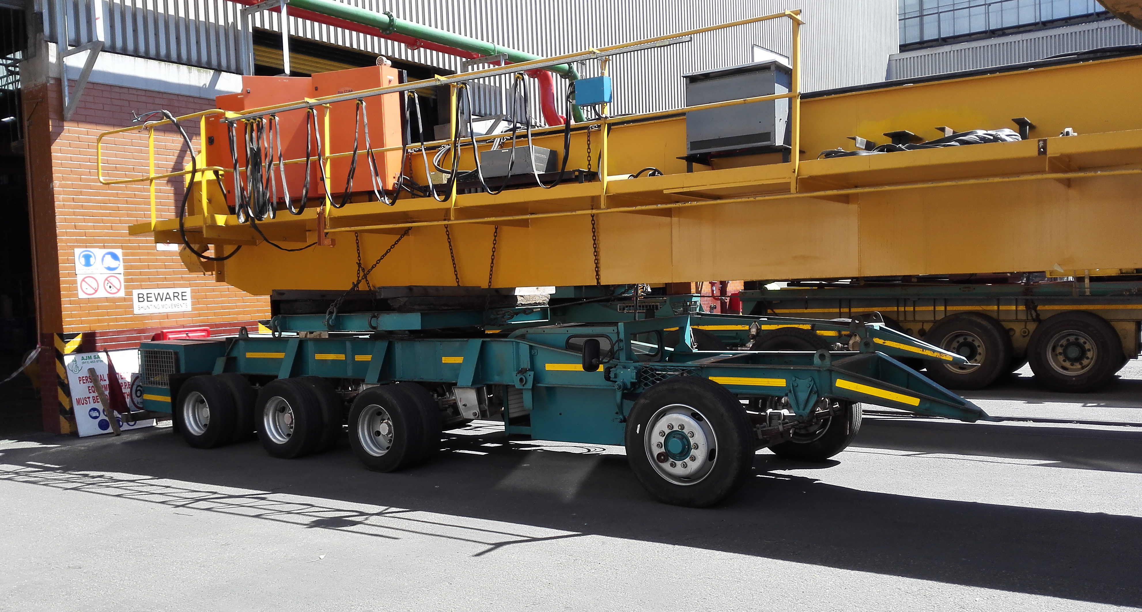 Dolly controlled by a tillerman for transporting overhead cranes.